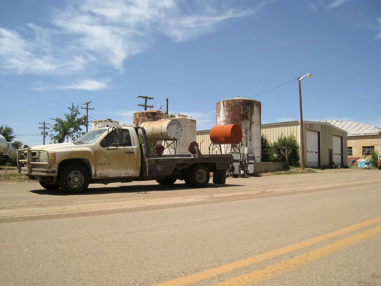 Jordan, Montana (Garfield County) in 2009.